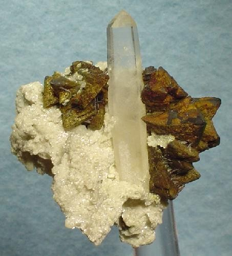 Freibergite, Quartz Locality: Yaogangxian Mine, Yizhang County, Chenzhou Prefecture, Hunan Province, China (Locality at ) Size: 3.5 x 3.0 x 2.4 cm. A very aesthetic combination specimen from the famous Yaogangxian Mine of China. A 2.7 cm, water-clear quartz spear is beautifully nestled amongst contrasting, lustrous, very sharp, tetragonal, coppery-colored freibergite crystals on a box-work matrix of pearlescent, opalized quartz. A really cute combination specimen. The freibergite was X-rayed by the University of Arizona to confirm it mineralogy. Freibergite is an uncommon sulfosalt and this is a VERY FINE example of the species from this locality.